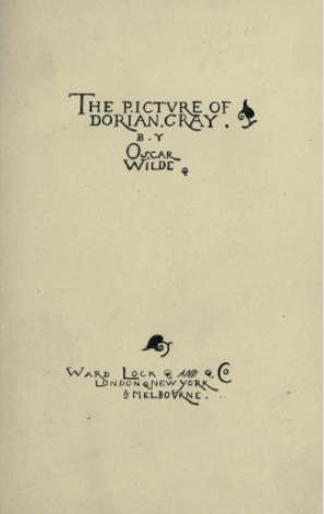 This is the title card of the original 1891 print of The Picture of Dorian Gray